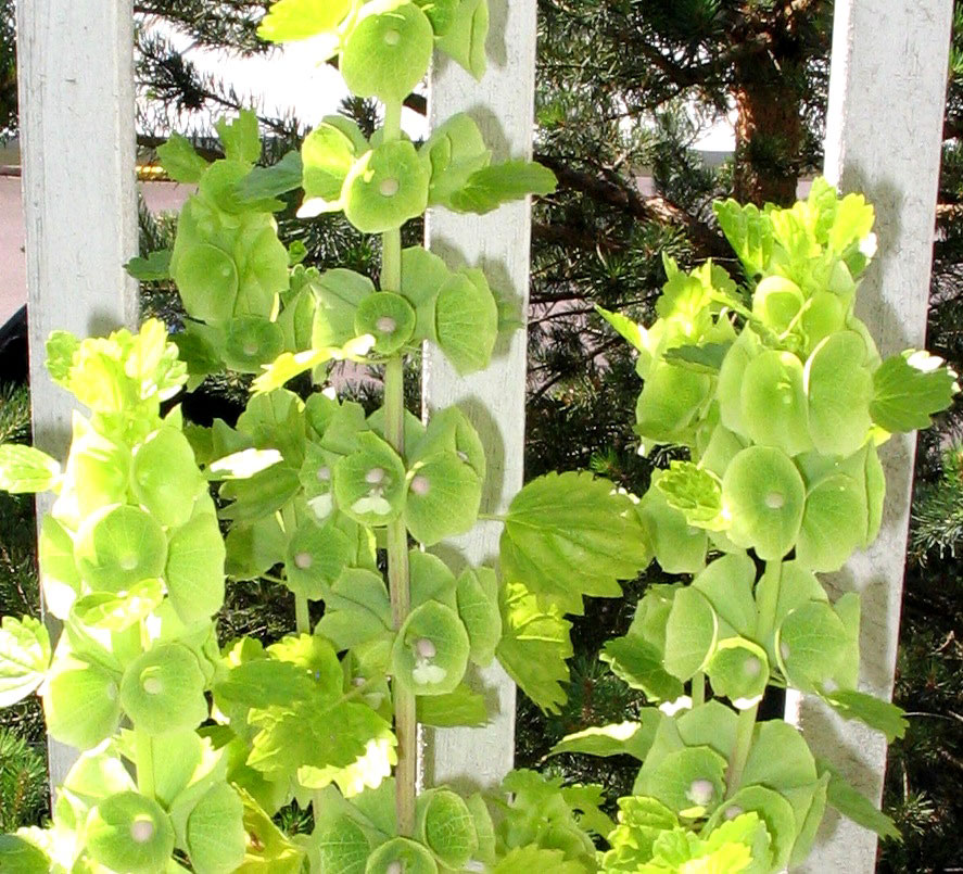 Plant of Moluccella laevis, aka. "Bells of Ireland" or 贝壳花